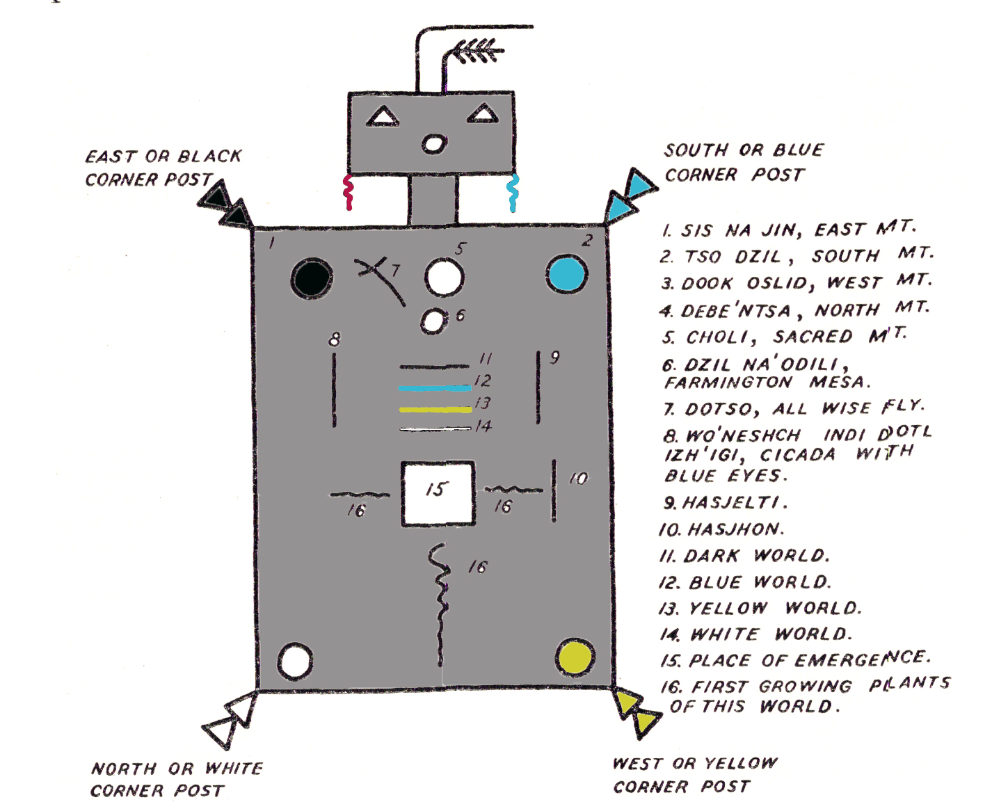 Drawing of a sandpainting of Dine'tah created by medicine men in Shiprock area Diné bizaad: Sisnaajiní Tsoodził Dookʼoʼoosłííd Dibé Nitsaa Chʼóolʼį́ʼí Dził Náʼoodiłii Dǫtsoh Wóóneeshchʼįįdii dootłʼizhígíí Haashchééłtiʼí Haashchééʼooghaan Niʼ Hodiłhił Niʼ Hodootłʼizh Niʼ Hatso Niʼ Halgai Hajíínéí (áłtsé chʼil/naniseʼ)